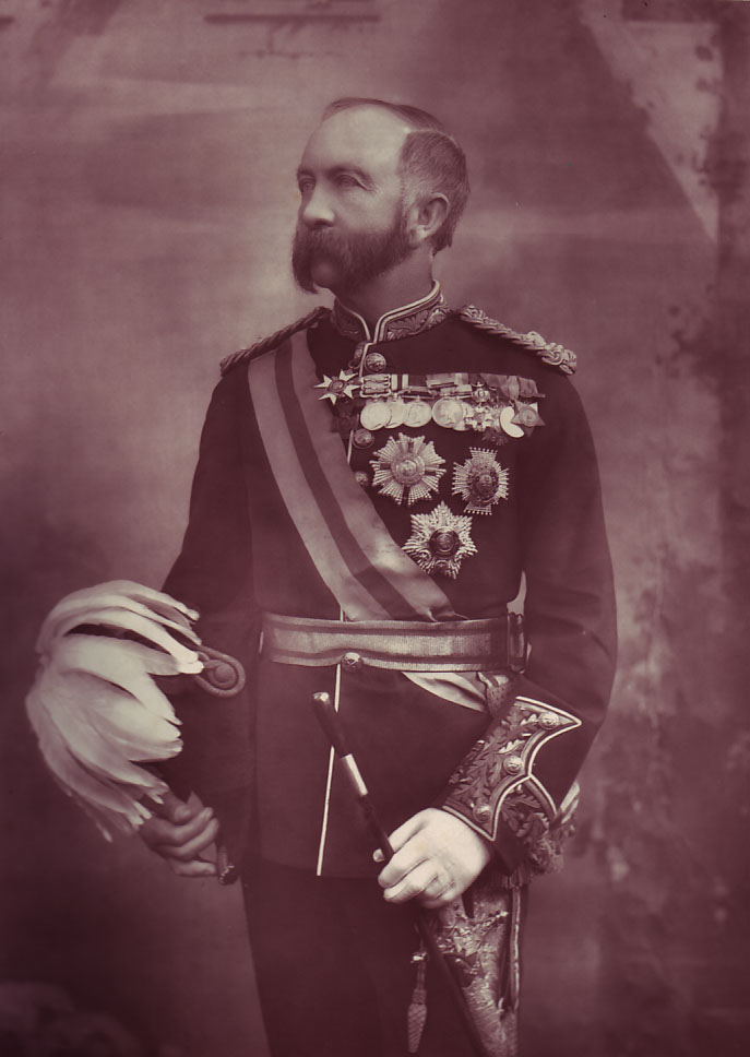 Portrait of Sir Evelyn Wood (1838-1919), Woodburytype, 9.7 x 7.1 in (247 mm x 180 mm)